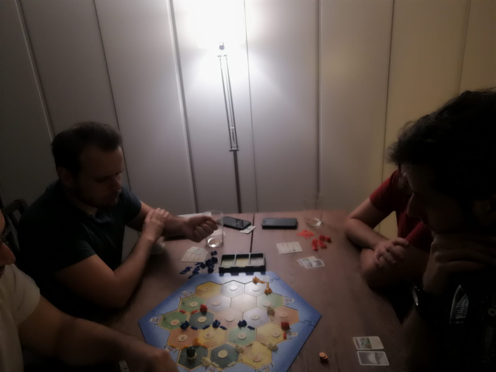 group of friends playing settlers of catan